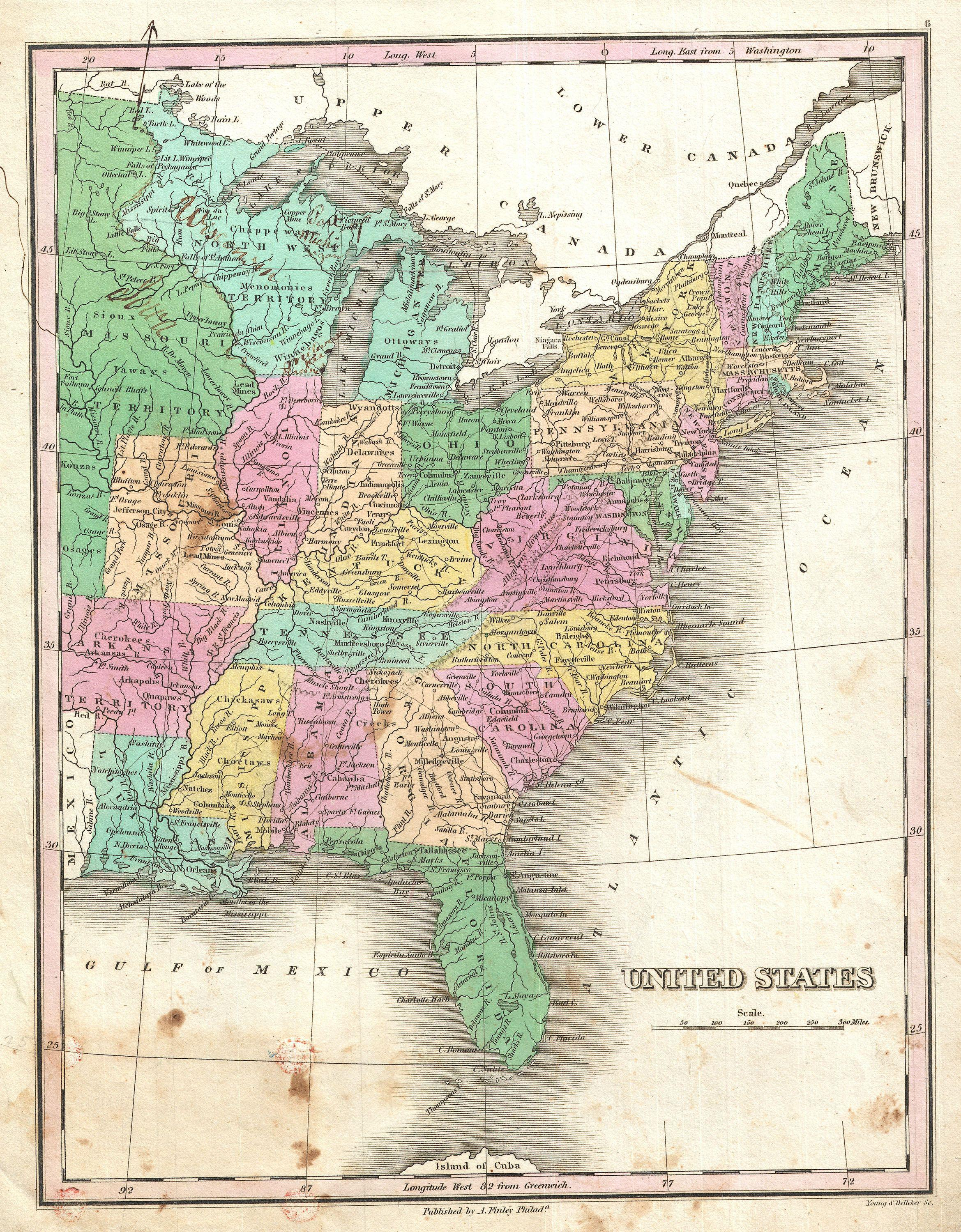 This is Finley’s desirable 1827 map of the United States. Covers the United States as it existed in 1827, extending westward as far as the Missouri Territory, Arkansas Territory, and Mexico. Identifies rivers, mountain ranges, lakes, and major cities. Color coded according to states and territories. Virginia and West Virginia have yet to split. Texas is part of Mexico. The Arkansas and Missouri Territories extend westward off the map. Some pen annotations regarding the creation of Wisconsin and Iowa have been added by the original owner in the upper left quadrant. Names Numerous American Indian Nations throughout. Mile scale and title in the lower right quadrant. Engraved by Young and Delleker for the 1827 edition of Anthony Finley's General Atlas .